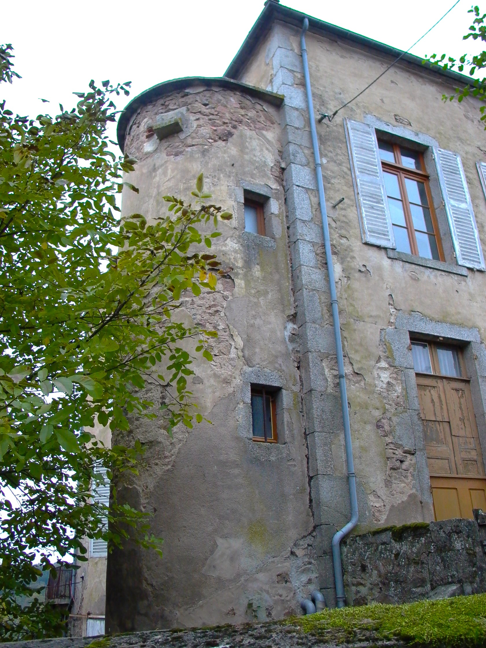 Pigeon house